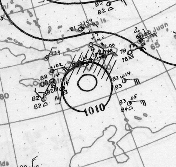 Surface analysis of Hurricane Two as a Category 1 hurricane south of Hispaniola.